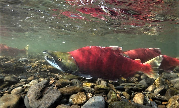 Live sockeye salmon (Oncorhynchus nerka) facing left